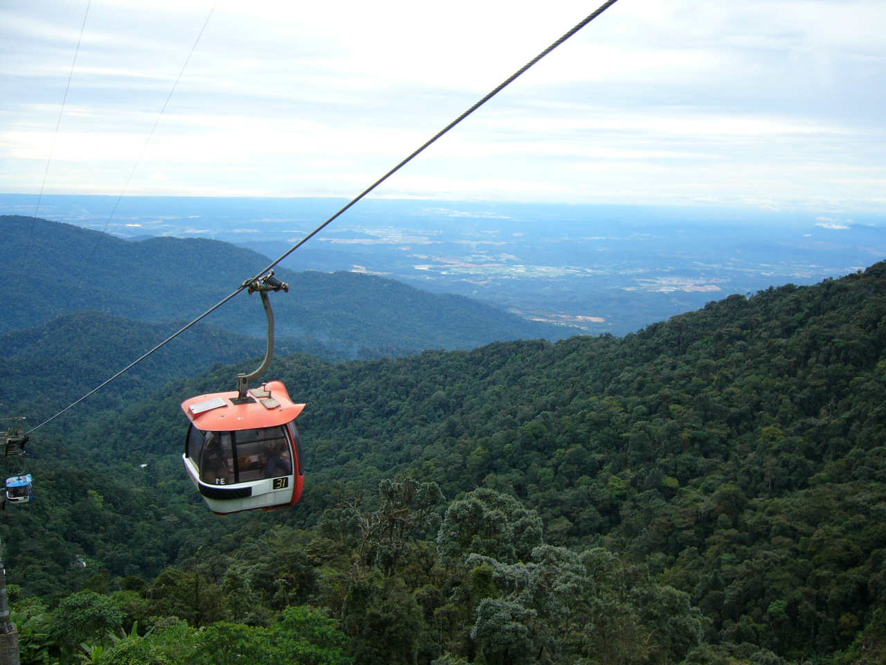 Genting Highland Malaysia